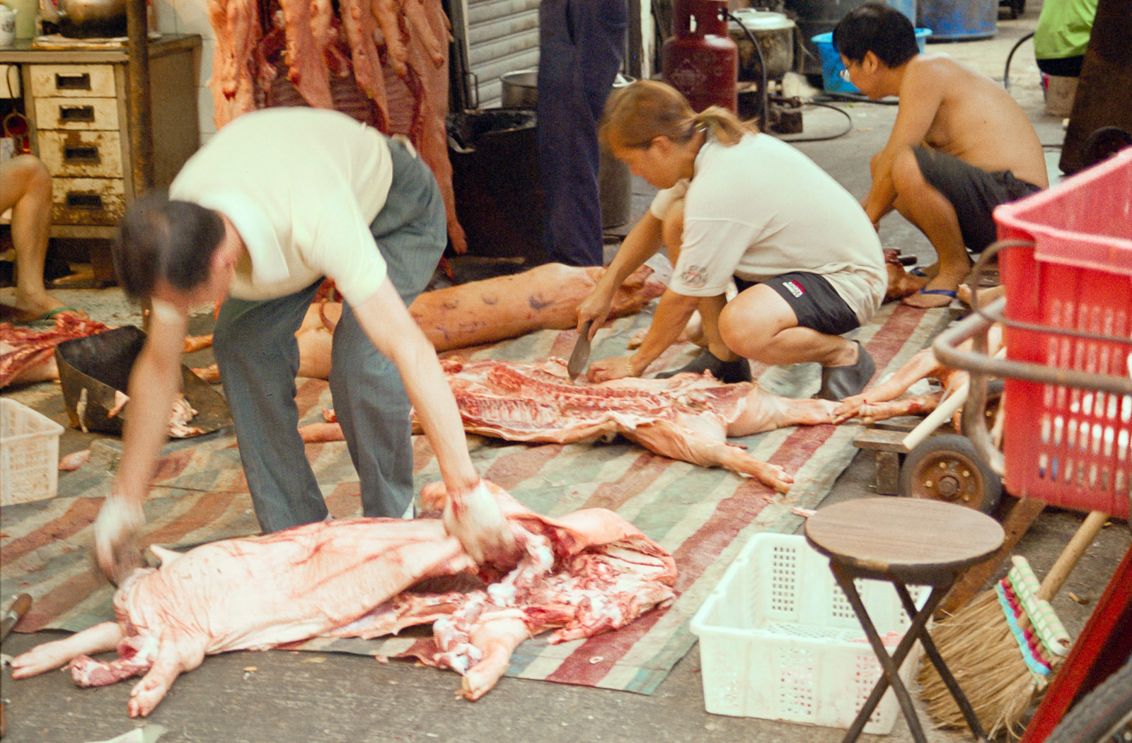 Butchering Hogs - Street Market (Reclamation St)